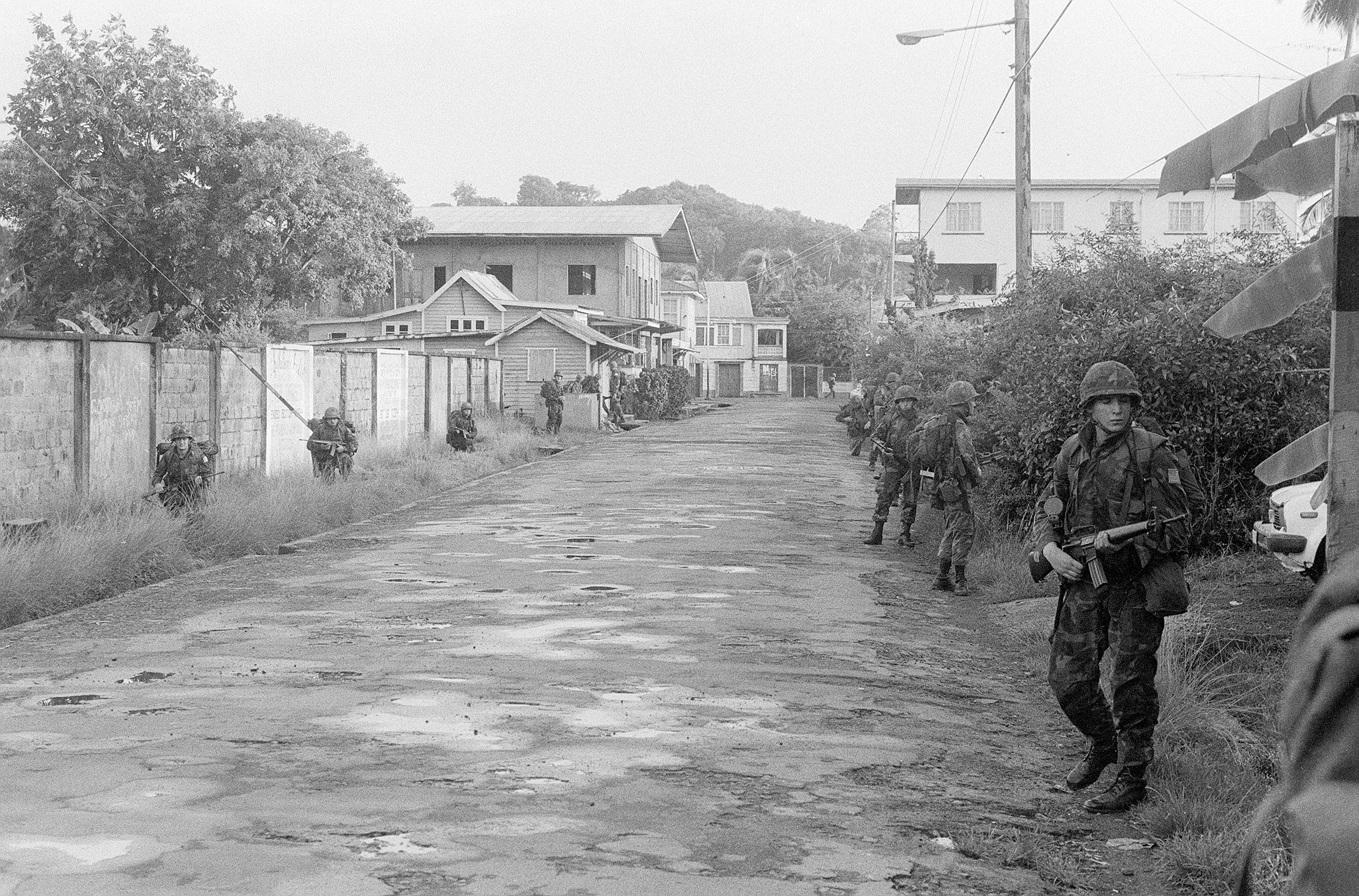 U.S. Marines patrol Grenville town on Grenada during "Operation Urgent Fury", 25 October 1983.